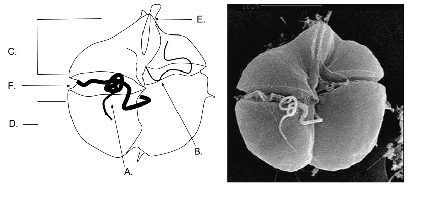 The dinoflagellate labeled above is the microscopic algae Karenia brevis. Karenia brevis is the cause of red tide in the Gulf of Mexico. The algae propels itself by using a longitudinal flagellum (A) and a transverse flagellum (B). The longitudinal flagellum lies in a groove- like structure called the cingulum (F). The dinoflagellate is separated into an upper portion called the epitheca (C) where the apical horn resides (E) and a lower portion called the hypotheca (D). Photo used from